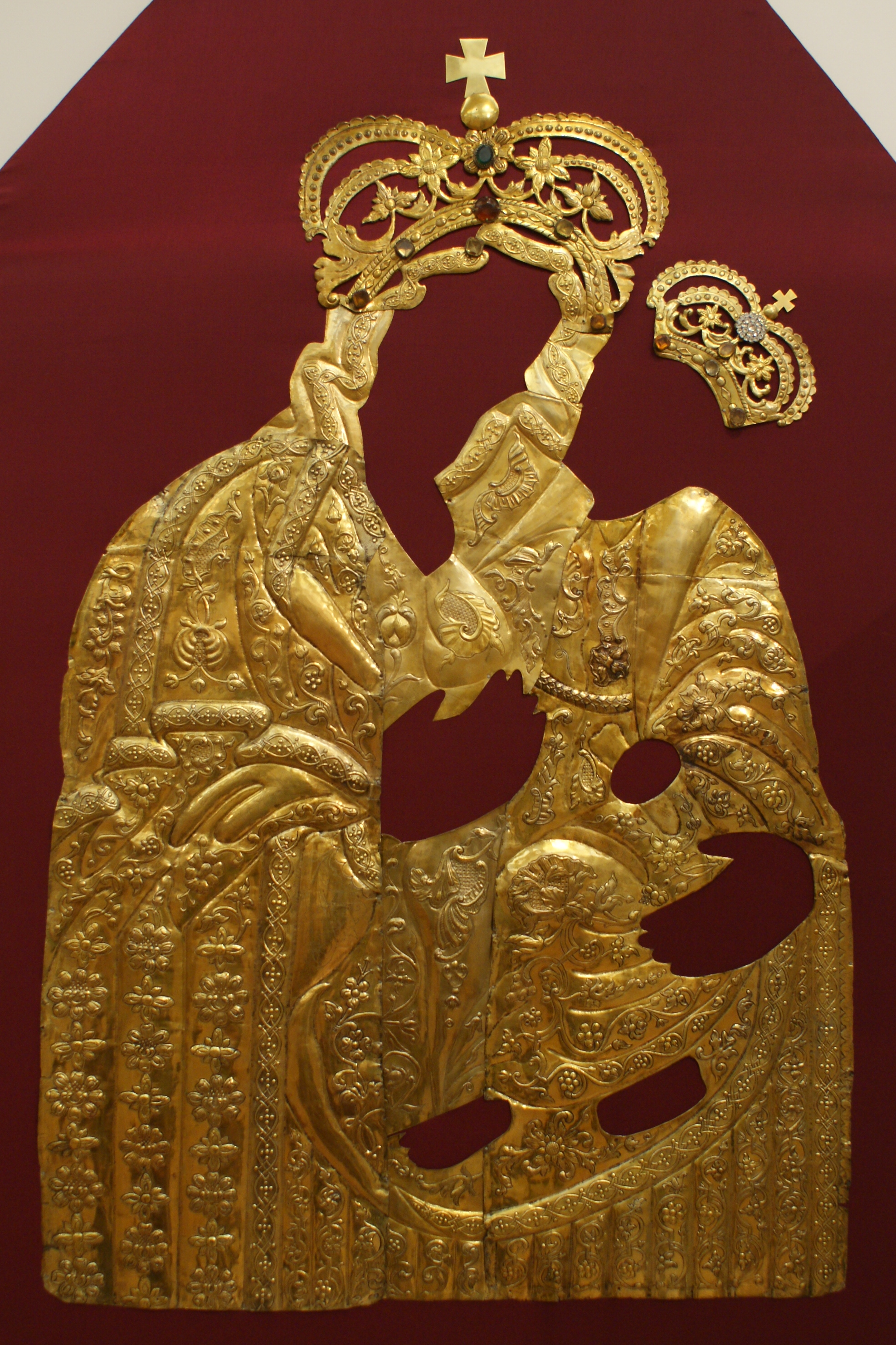 Riza Icon "Mother of God protectress". Metal stamping, engraving, gilding, glass